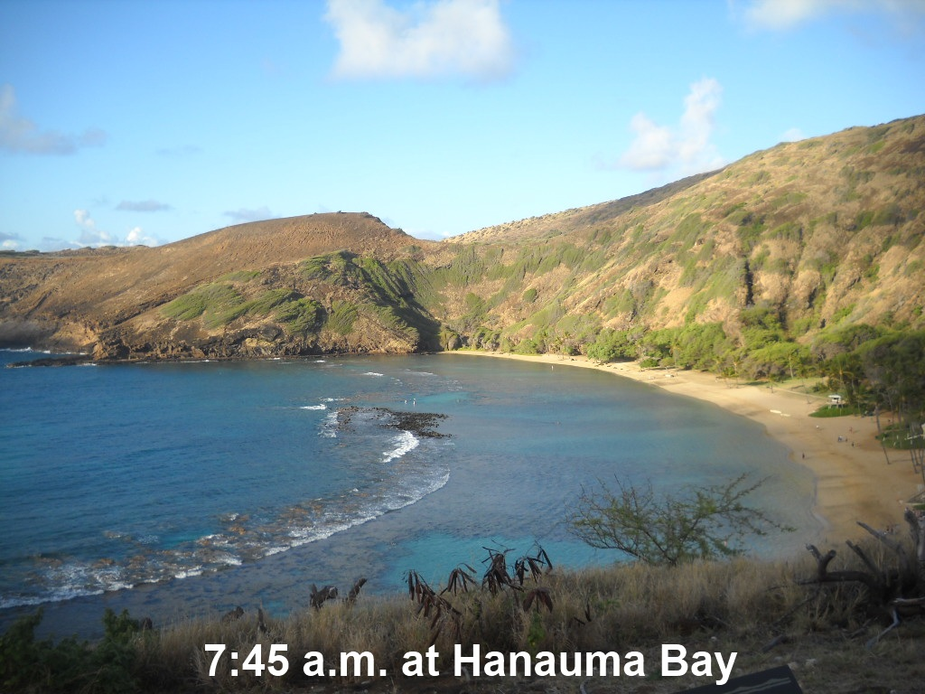 Picture on Hanauma Bay Nature Preserve in the morning.